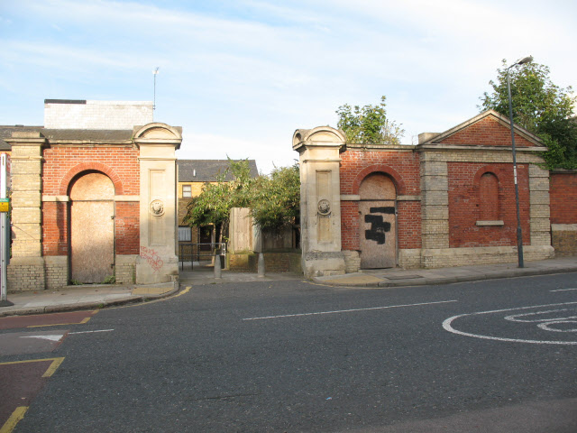 Red barracks gates The gates, gatehouse and wall are all that remains of the former Red Barracks in Woolwich. They are grade 2 listed but on the "buildings at risk register".